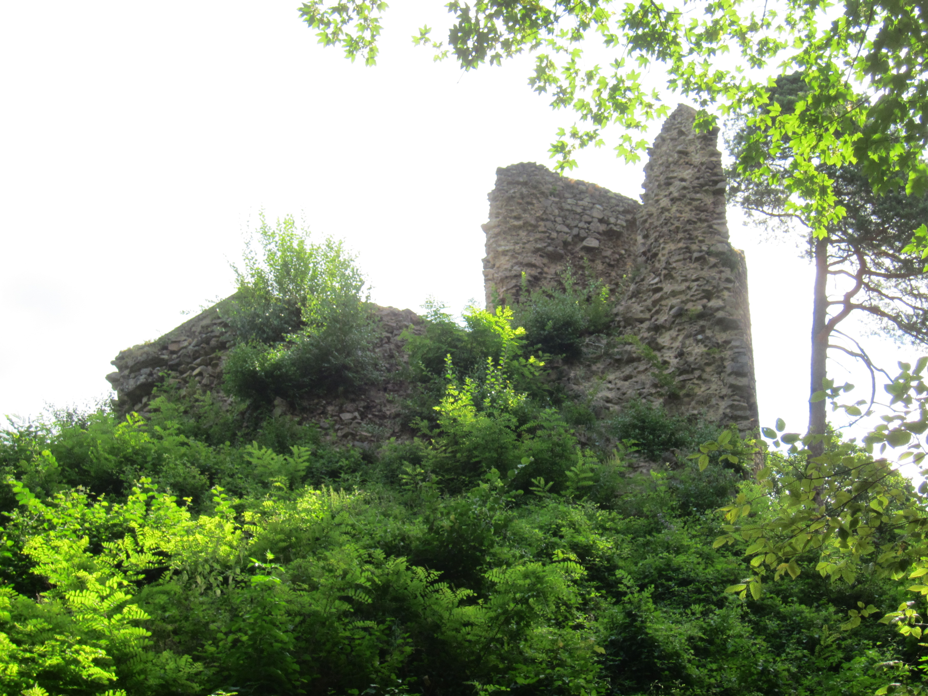 the castle seen from northwest